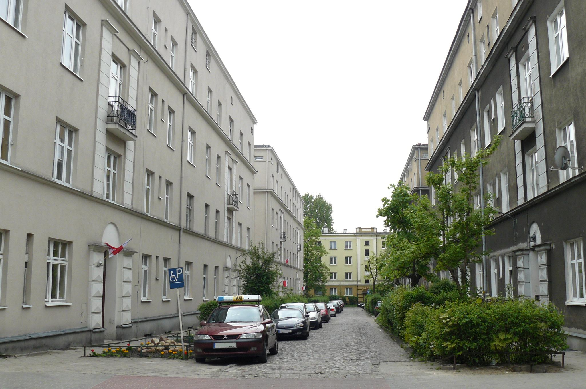 Poznan, Stablewskiego Street.